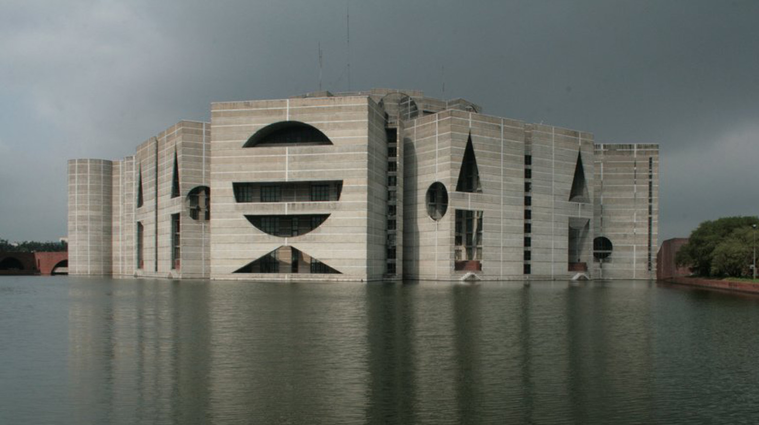 Jatiyo Sangshad Bhaban, Dhaka, Bangladesh